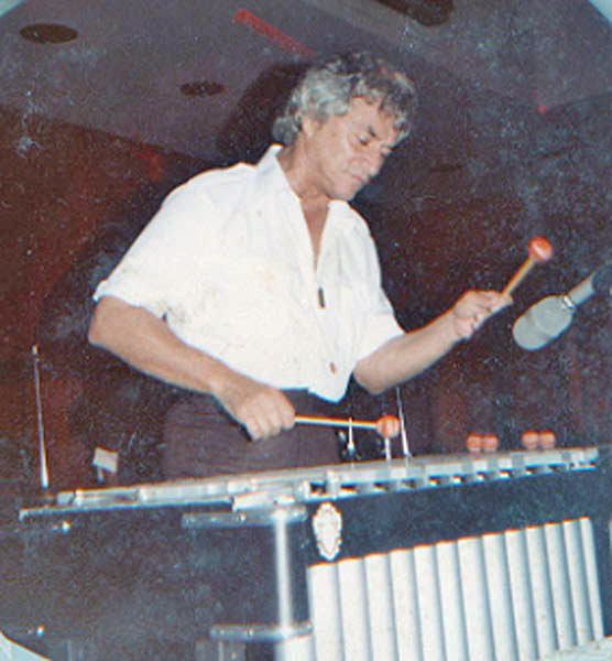 Jazz vibraphonist Terry Gibbs at the Village Jazz Lounge in Walt Disney World